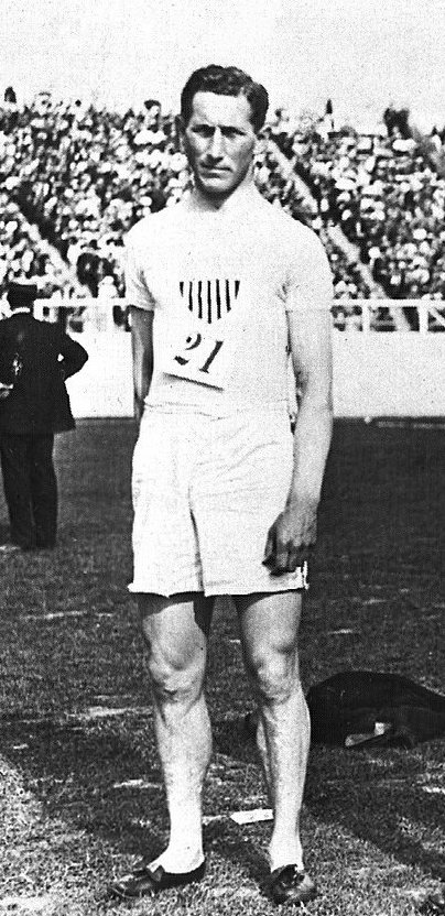 Track (men's), 1600 Meter Relay Team, 1908 Olympic Games. Cartmell